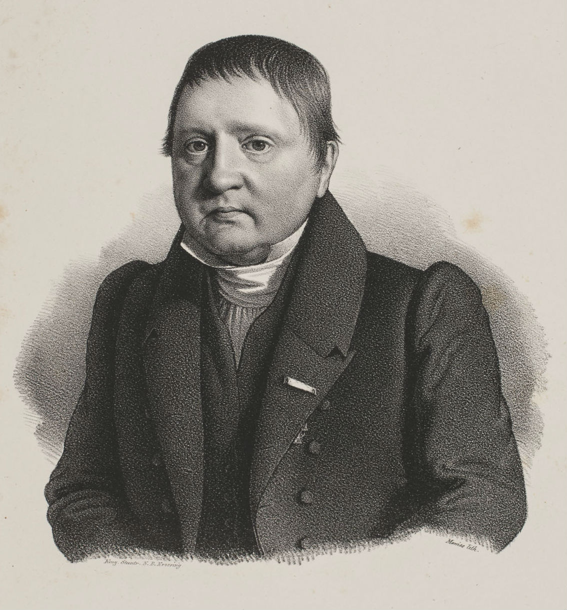 Danish surgeon, professor and academy member Johan Sylvester Saxtorph (1772-1840), cropped image of original file